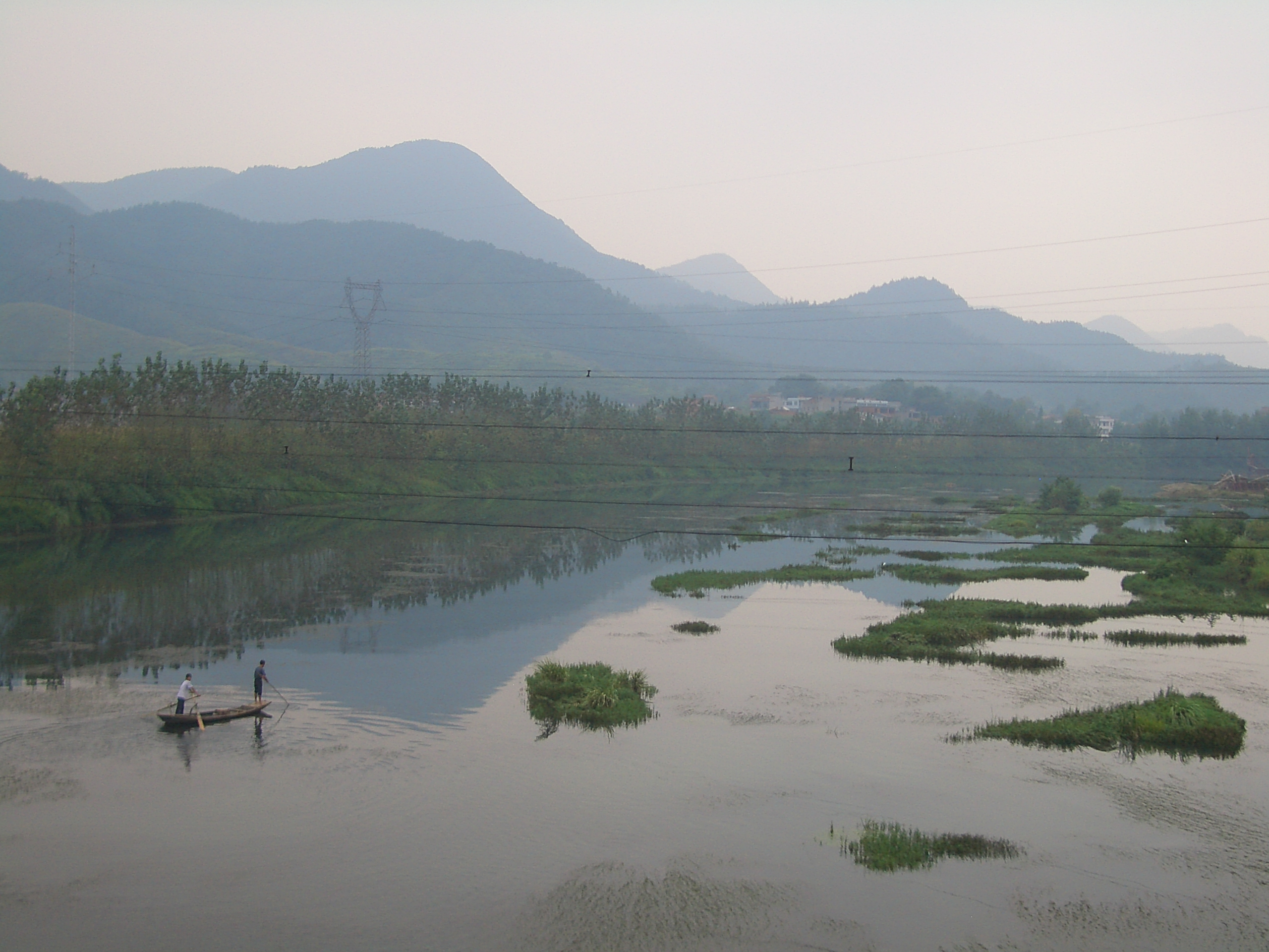 A view of the Fushui (富水) River from the bridge on the National Highway G106/G316 in Yangxin County, Hubei (between Longgang and Futu).